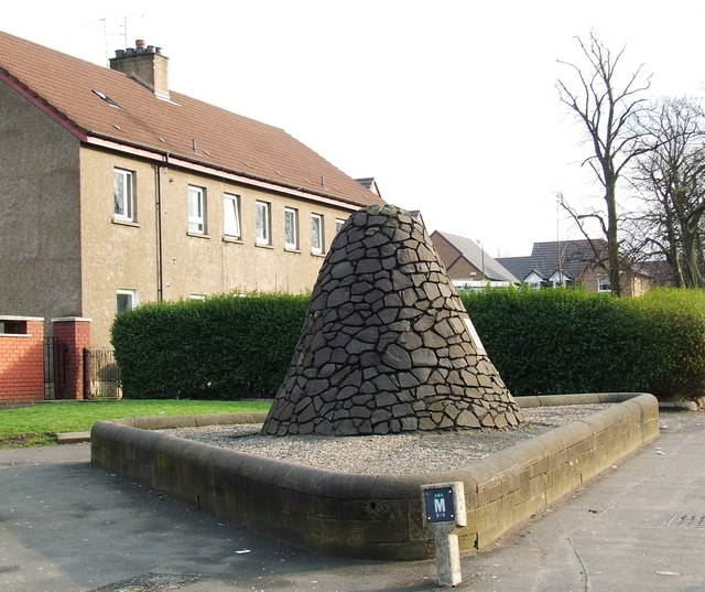 Cairn on Renfrew Road See 382153 for another view of the cairn. A plaque on the cairn reads as follows... Near this spot the Princess Marjory Bruce was fatally injured by falling from her horse 1316 Her son, born posthumously became Robert The Second first of the Stewart Kings of Scotland